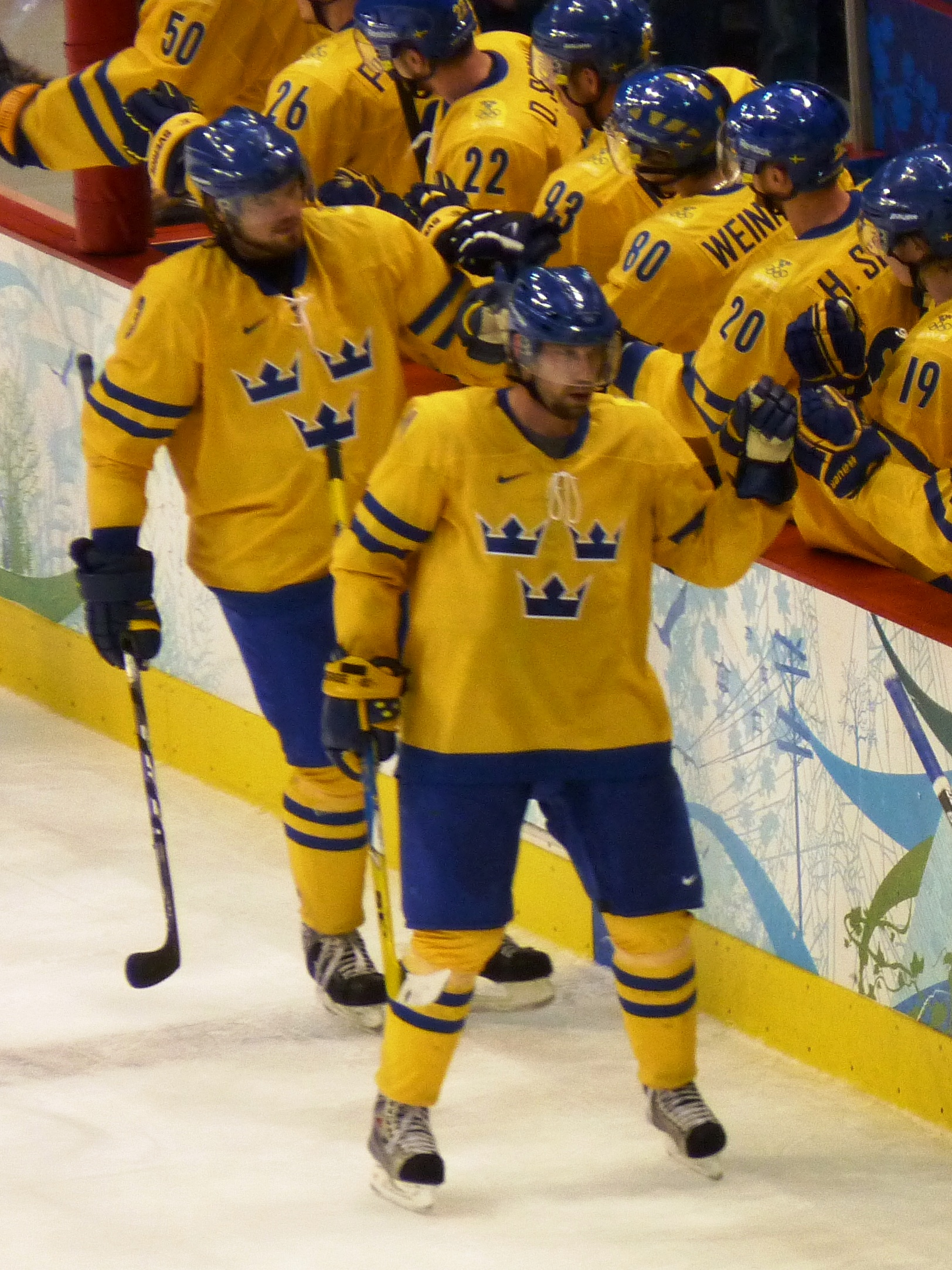 Sweden vs Slovakia, Winter Olympics Quarter-final in Vancouver, 24-Feb-2010